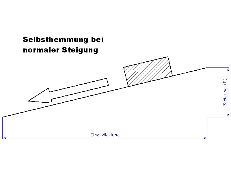 self-locking by thread